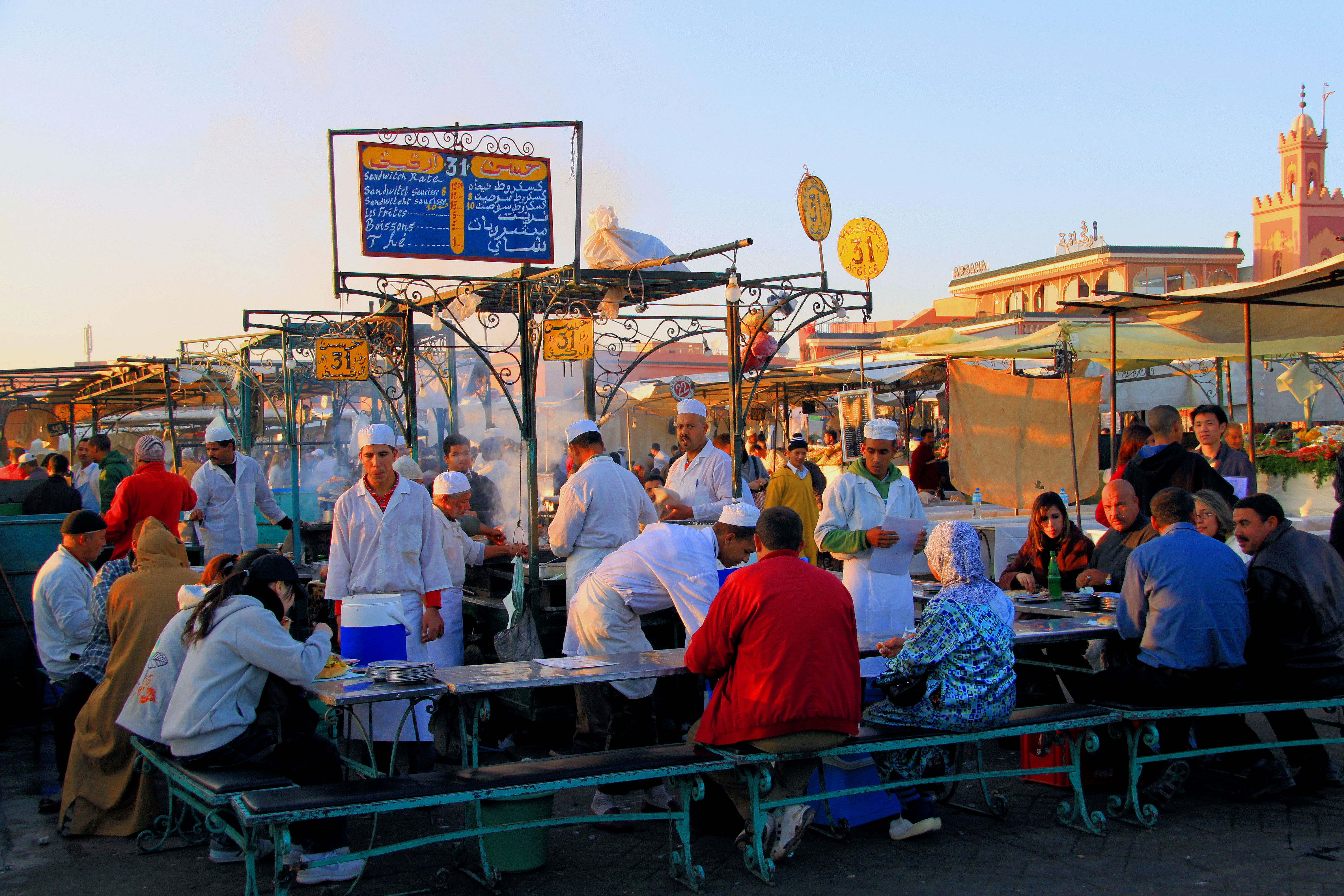 Food stall which opens in the evening at the Djemaa el Fna square in Marrakech